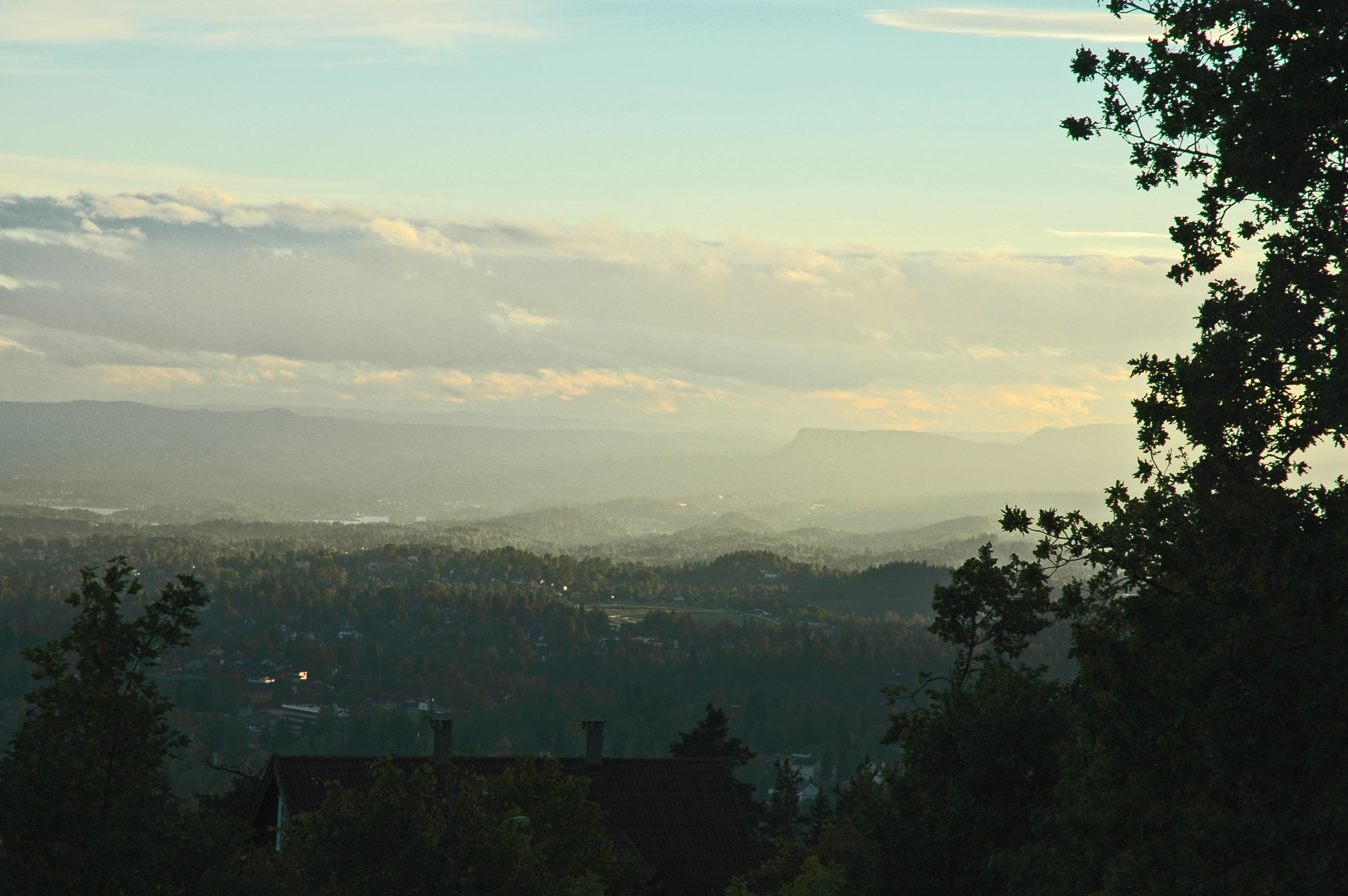 View of Bærum, Norway from Holmenkollen